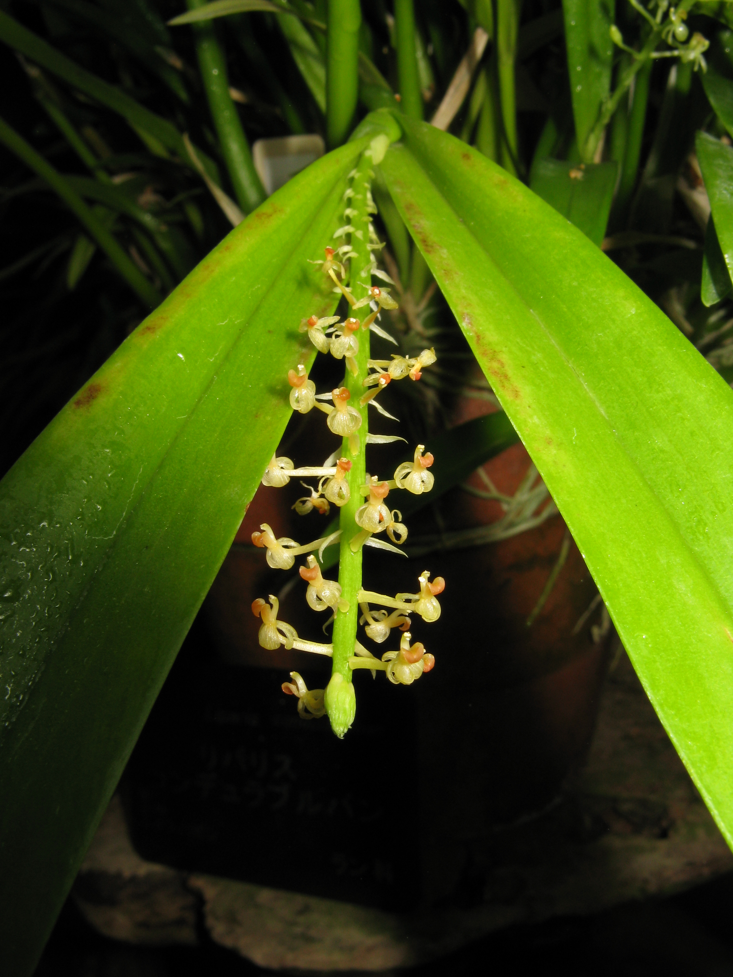 Stichorkis condylobulbon Place:Osaka Prefectural Flower Garden,Osaka,Japan